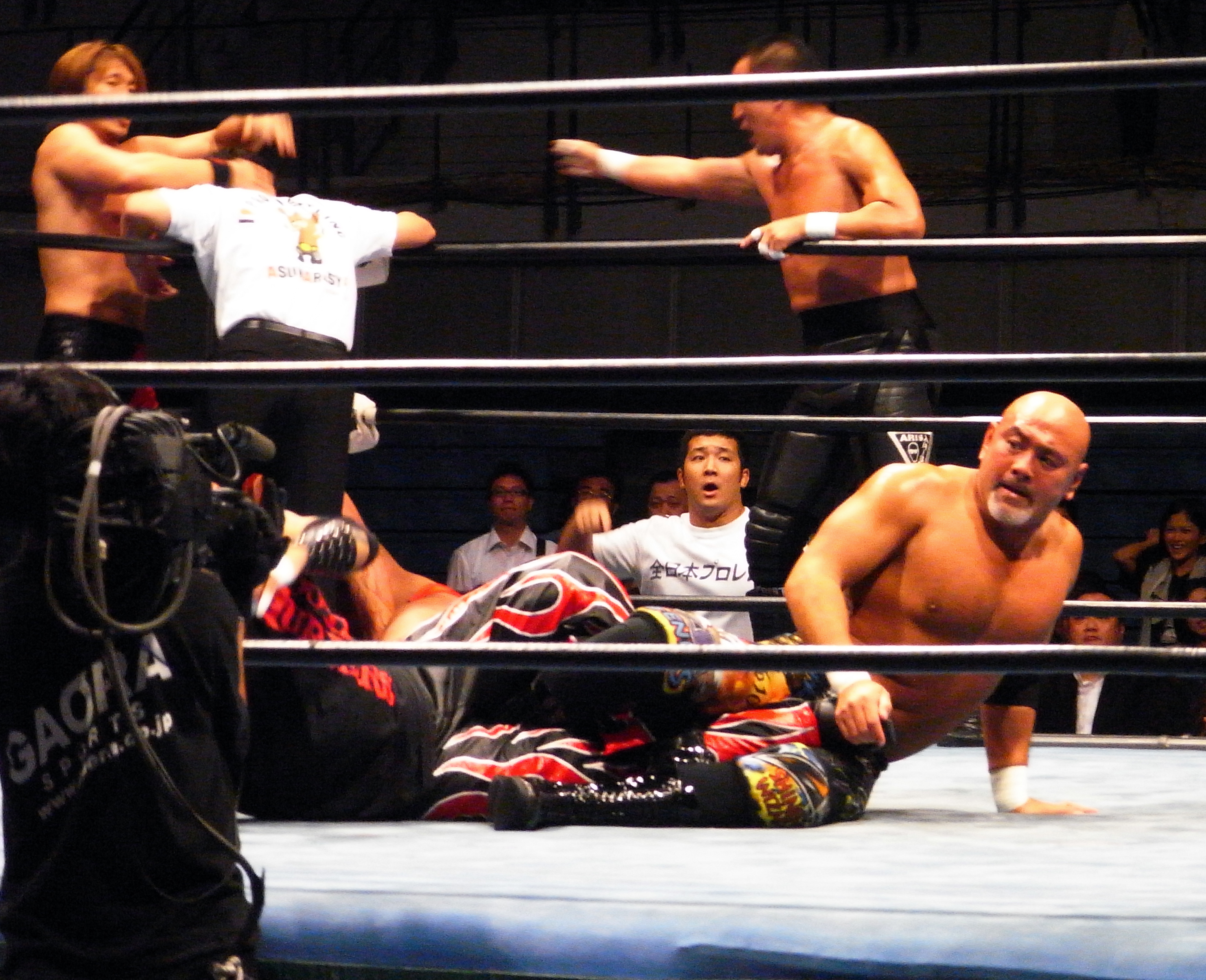 Keiji Mutoh at AJPW "Pro-Wrestling Love in Taiwan 2010", the National Taiwan University Gymnasium, Taipei.